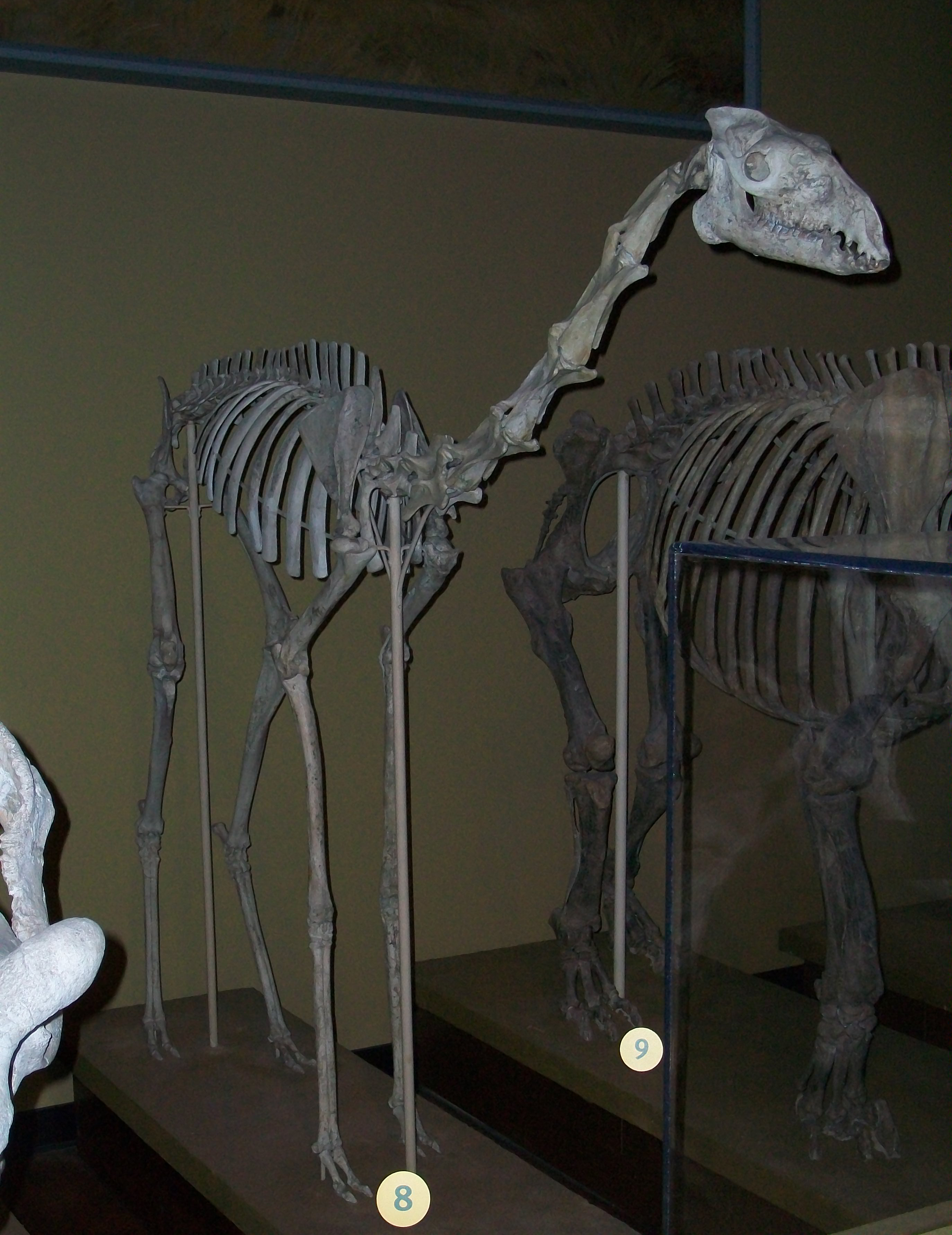 Mounted skeleton of Oxydactylus longipes in the Field Museum of Natural History.